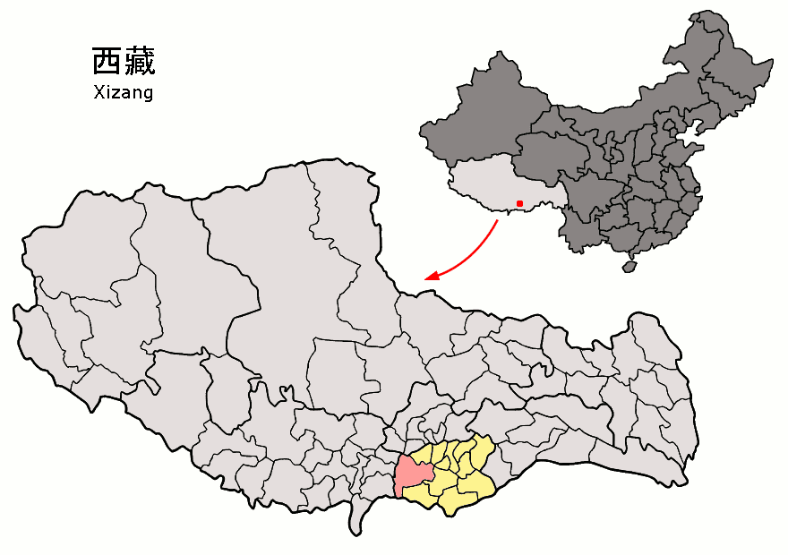 Location of Nagarzê County (pink) and Shannan Prefecture (yellow) within Tibet (Xizang) autonomous region of China